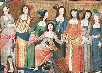 Turkey, late 18th century Manuscripts Opaque watercolor and gold on paper The Edwin Binney, 3rd, Collection of Turkish Art at the Los Angeles County Museum of Art (M.85.237.100) Islamic Art